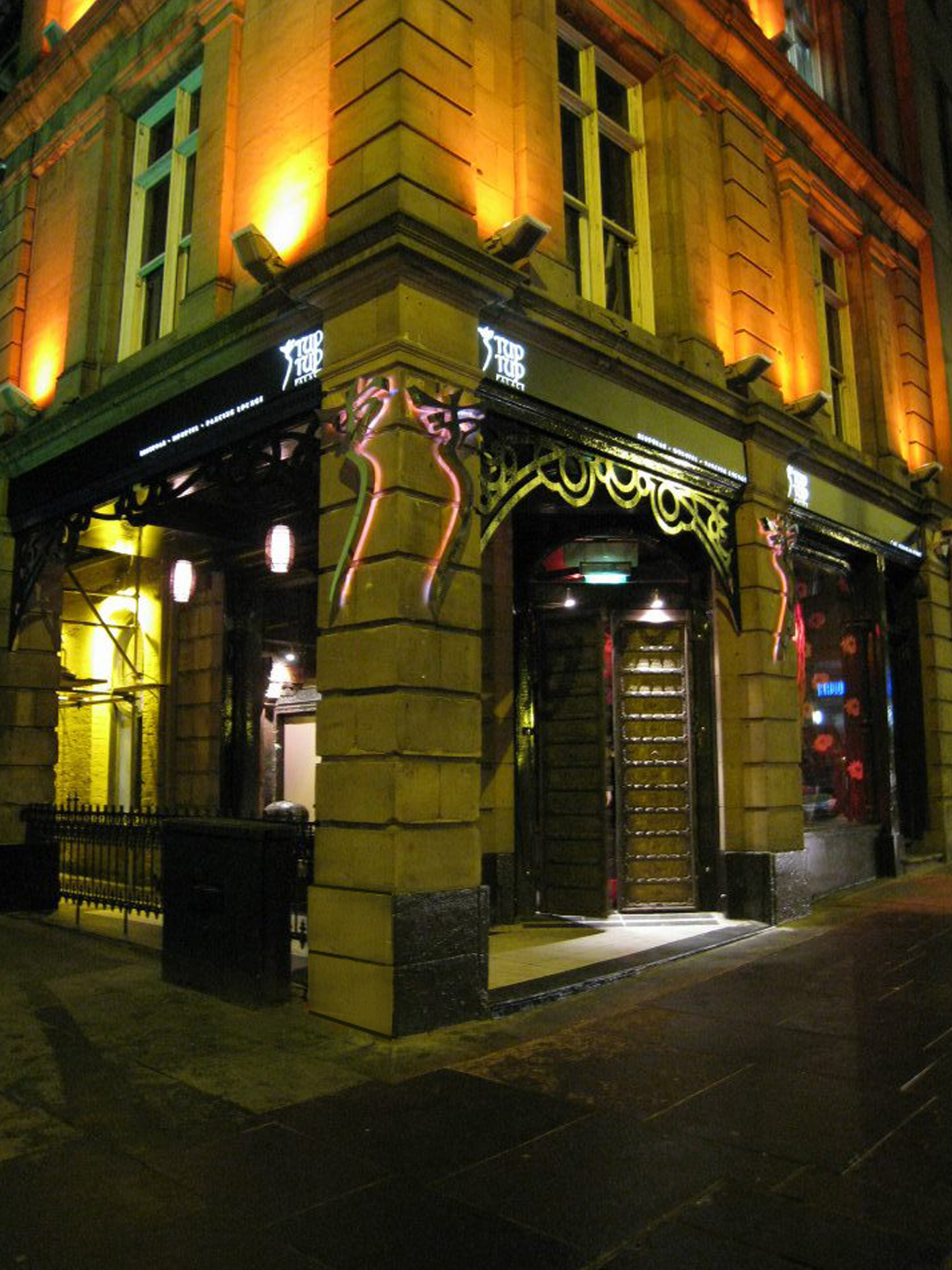 Exterior shot of Tup Tup Palace nightclub, Newcastle upon Tyne, UK.